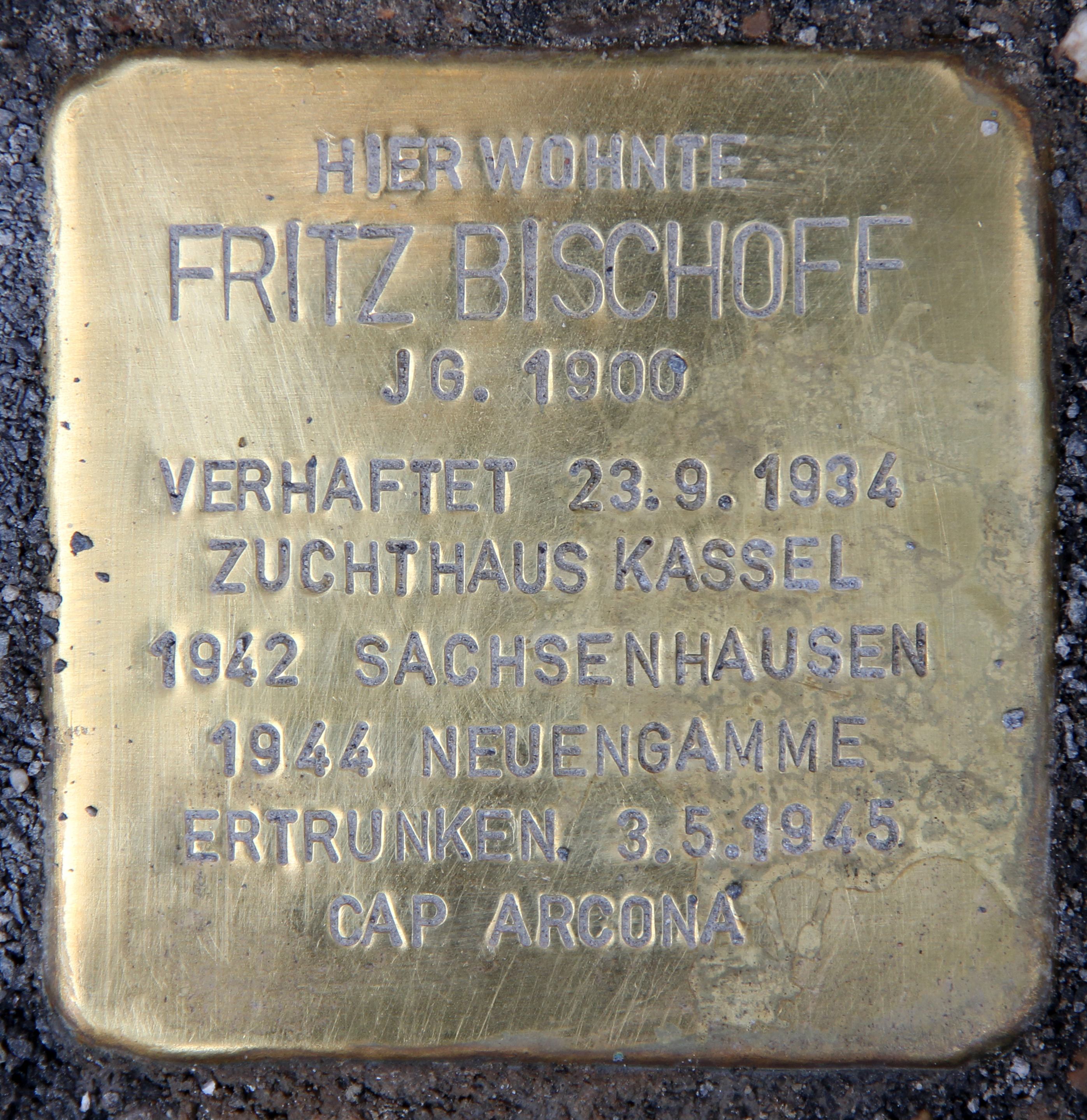 "Stolperstein" (stumbling block), Fritz Bischoff, Weisestraße 9, Berlin-Neukölln, Germany